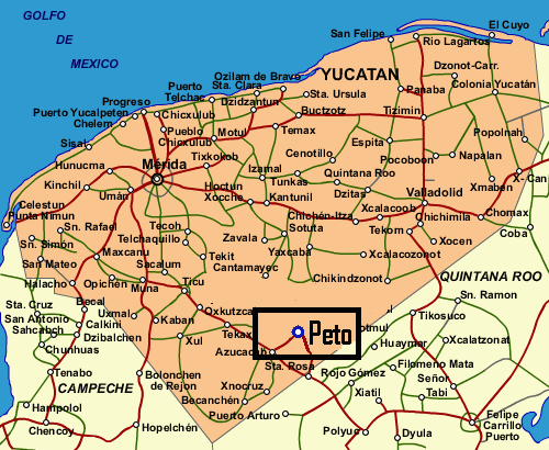 Location map of Peto in Yucatan (Mexico)